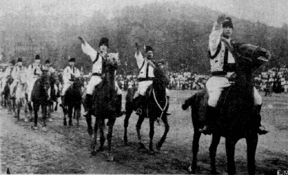 A cavalry unit of the Arcași, a Romanian paramilitary force in Bukovina. From the festivities organized at Bucșoaia in summer 1937, during which Romanian King Carol II (to whom the riders address their Roman salute) was made Vornic of the movement.